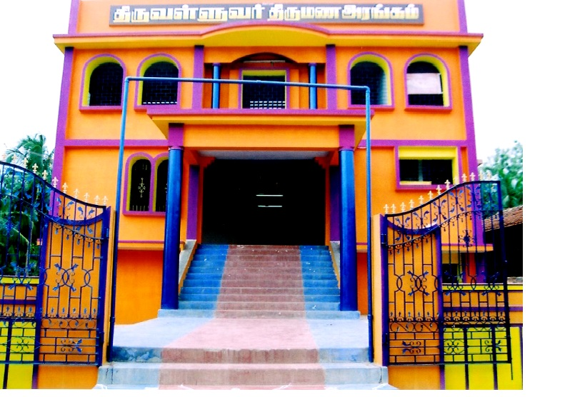 Thiruvalluvar Thirumana Arangam, South Street, Patteeswaram.